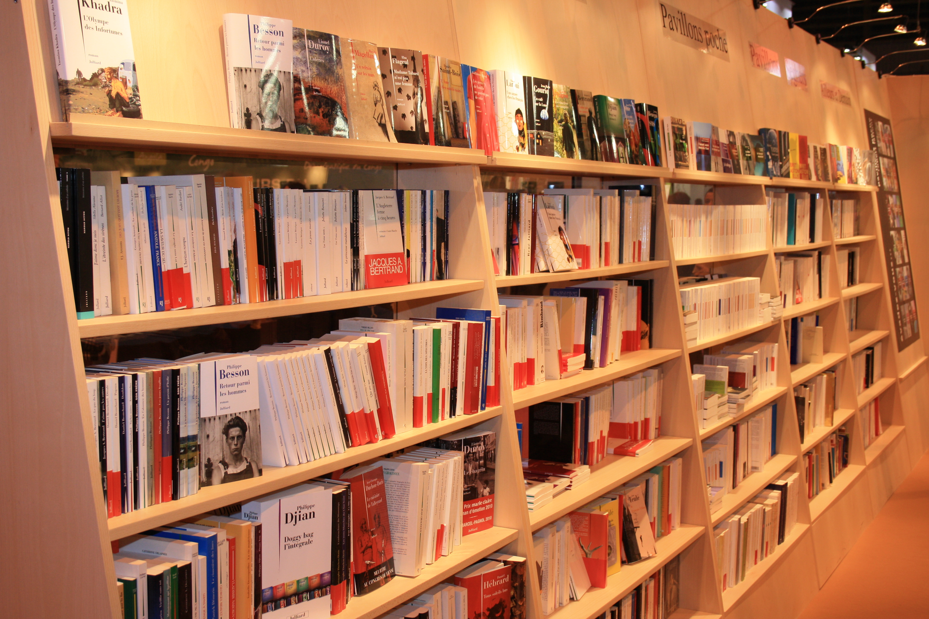 Robert Laffont booth at the Salon du Livre in Paris, France